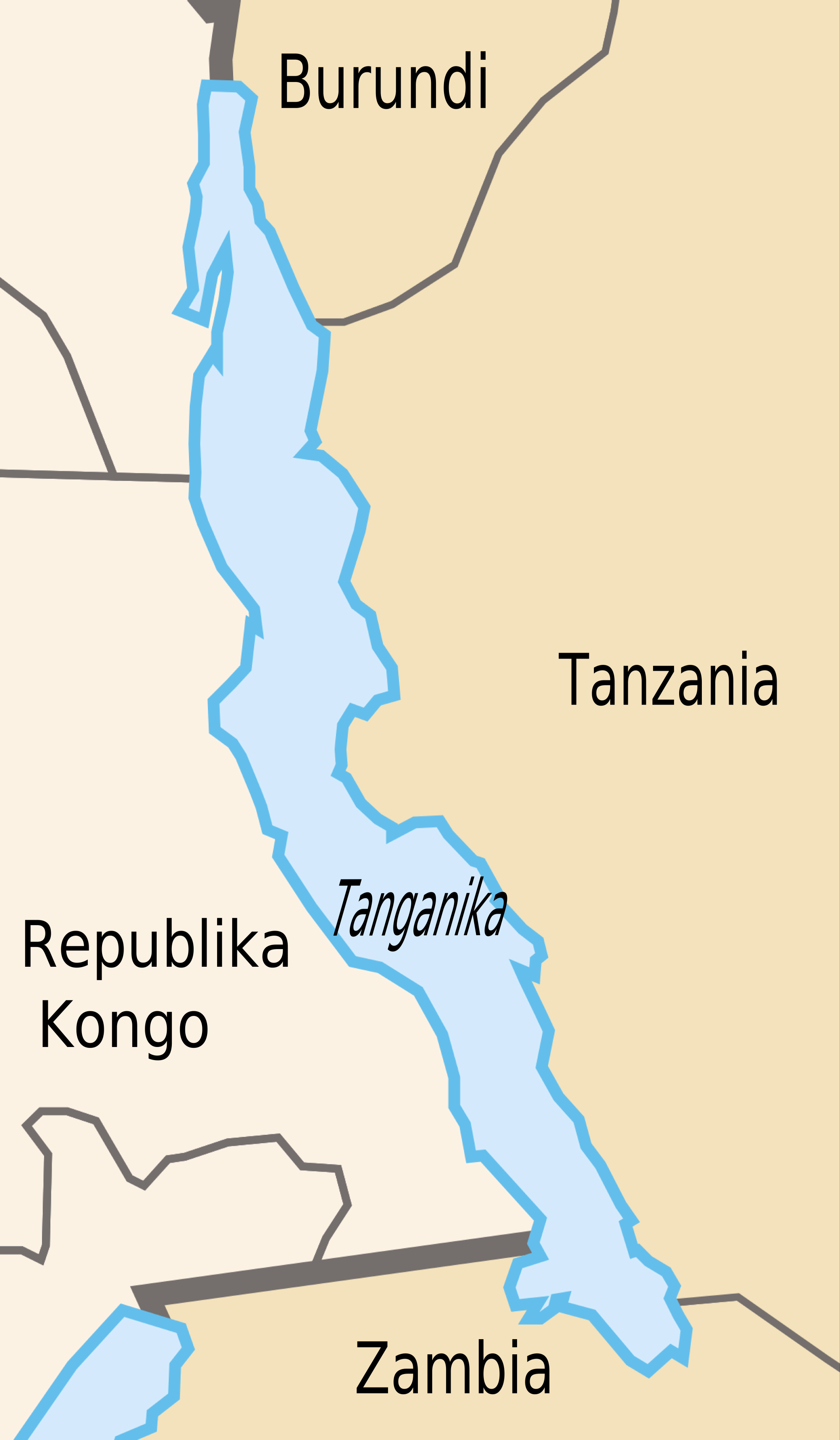 © Denis Jacquerye 2005-2006, GFDL/cc-by-sa (Image:Congo Kinshasa Template.svg) © Lukas3 2006, GFDL/cc-by-sa